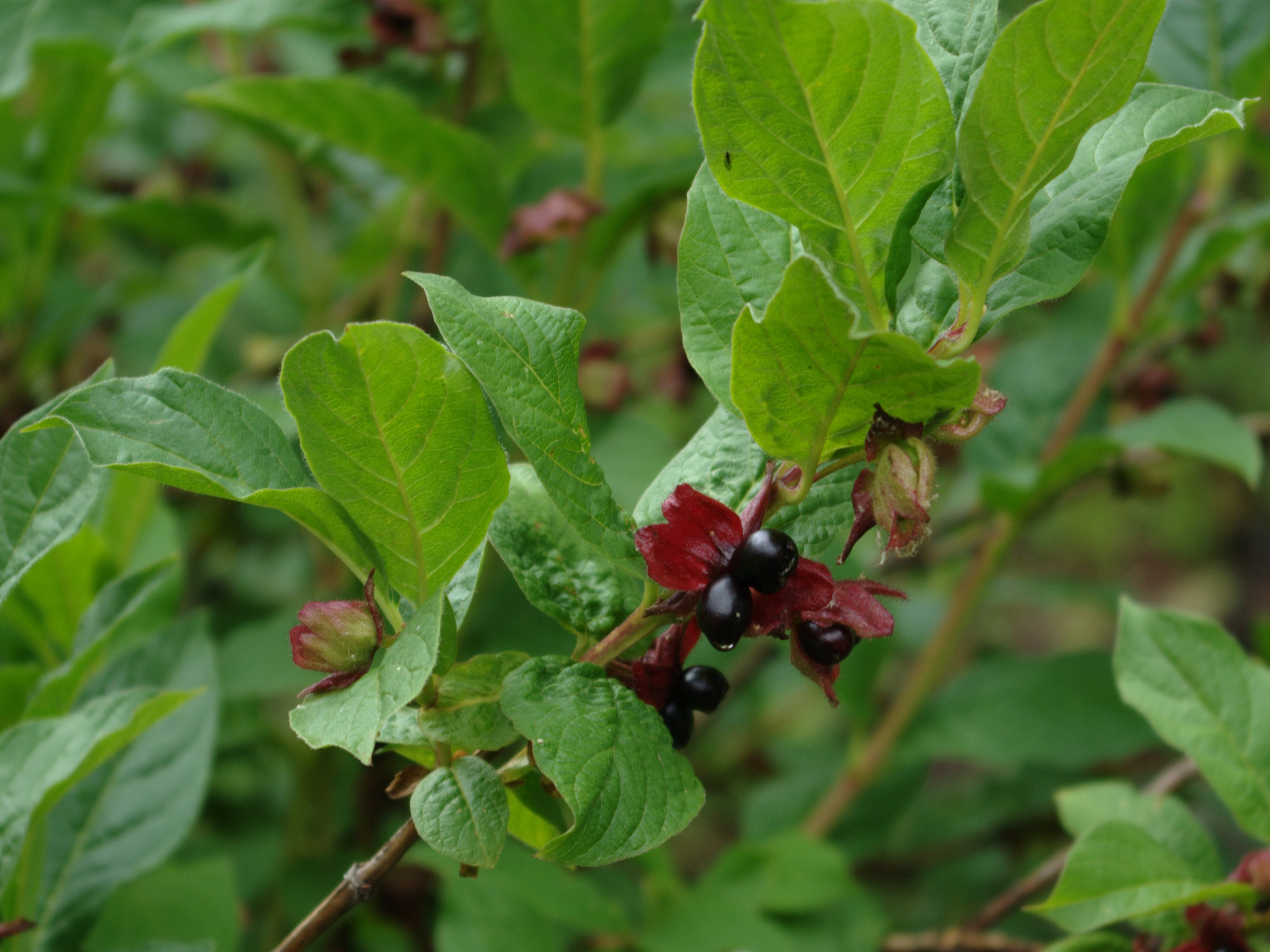 Lonicera involucrata, variety involucrata (bearberry honeysuckle, twinberry honeysuckle), in fruit, Santa Fe Ski area, near Santa Fe, New Mexico.